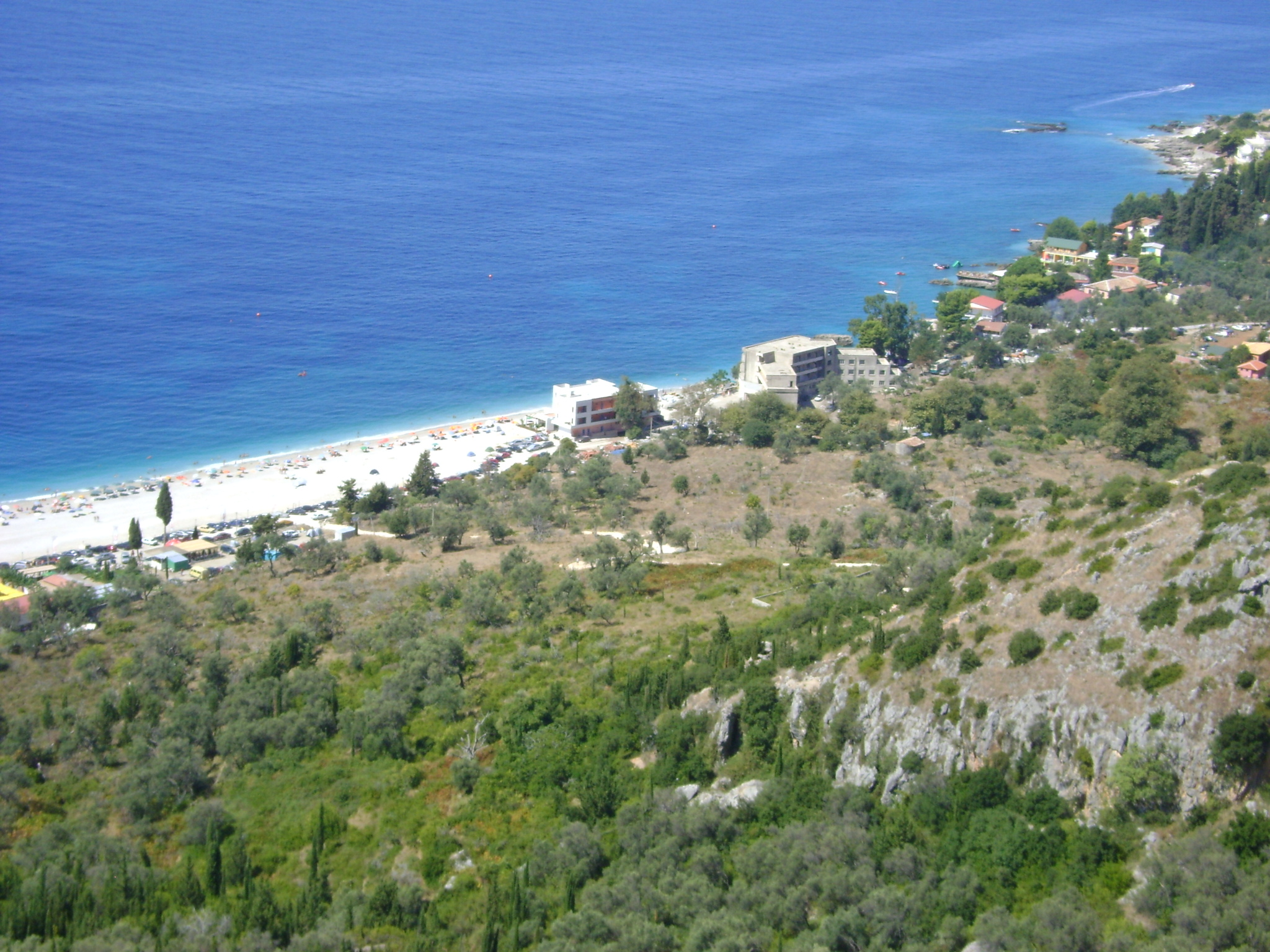 Dhërmi – Albania: Beach at "camp"